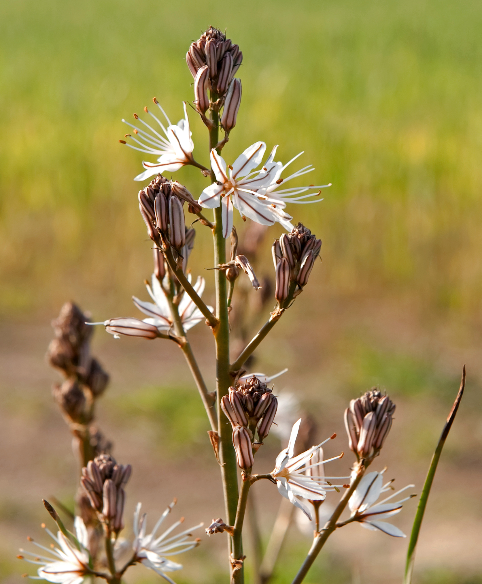 Asphodelus ramosus subsp. ramosus flowering after the rain. Picture taken near kibbutz Be'eri, Israel.